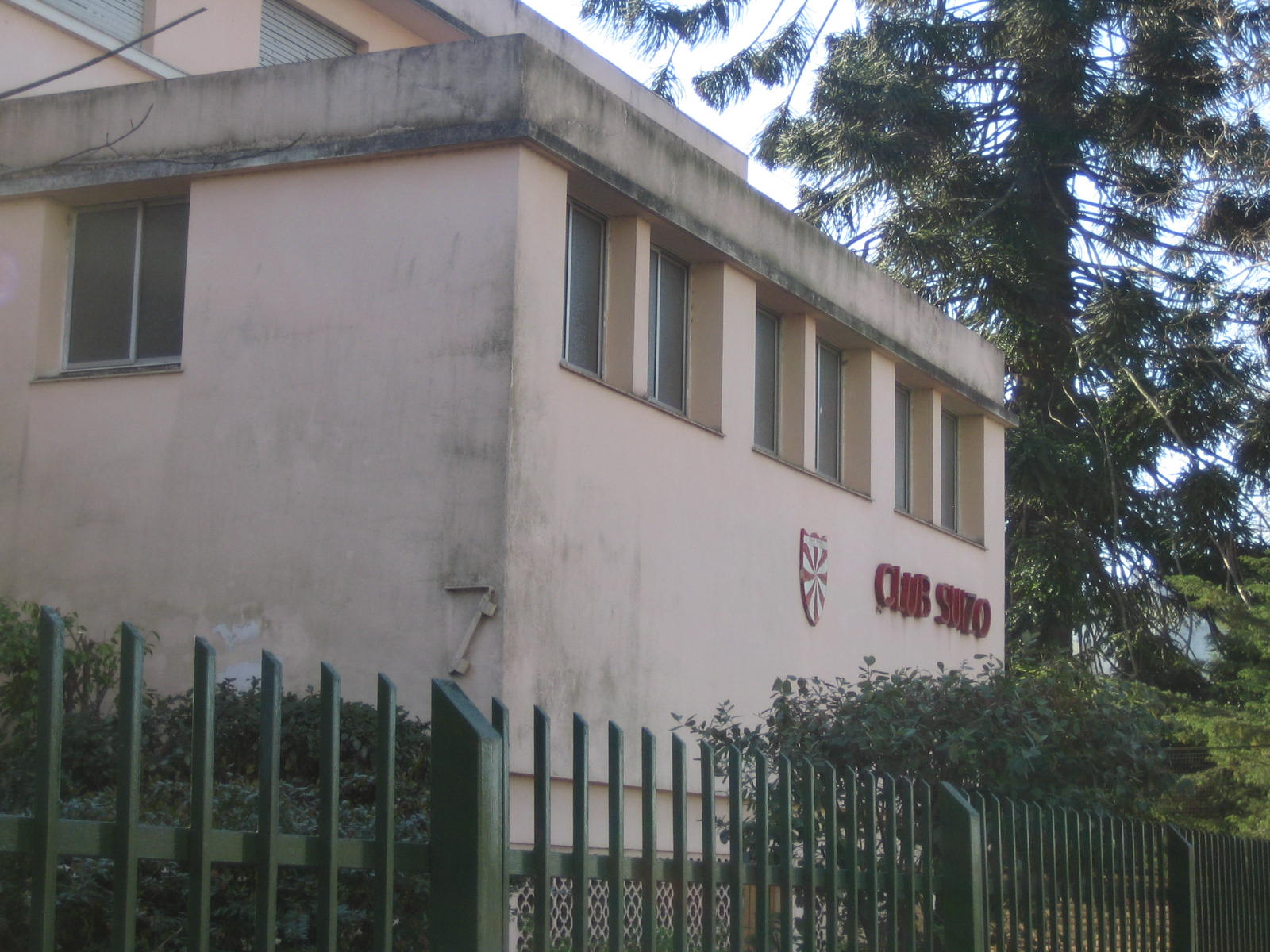 Club Suizo de Buenos Aires - El Tigre - Buenos Aires - Argentina